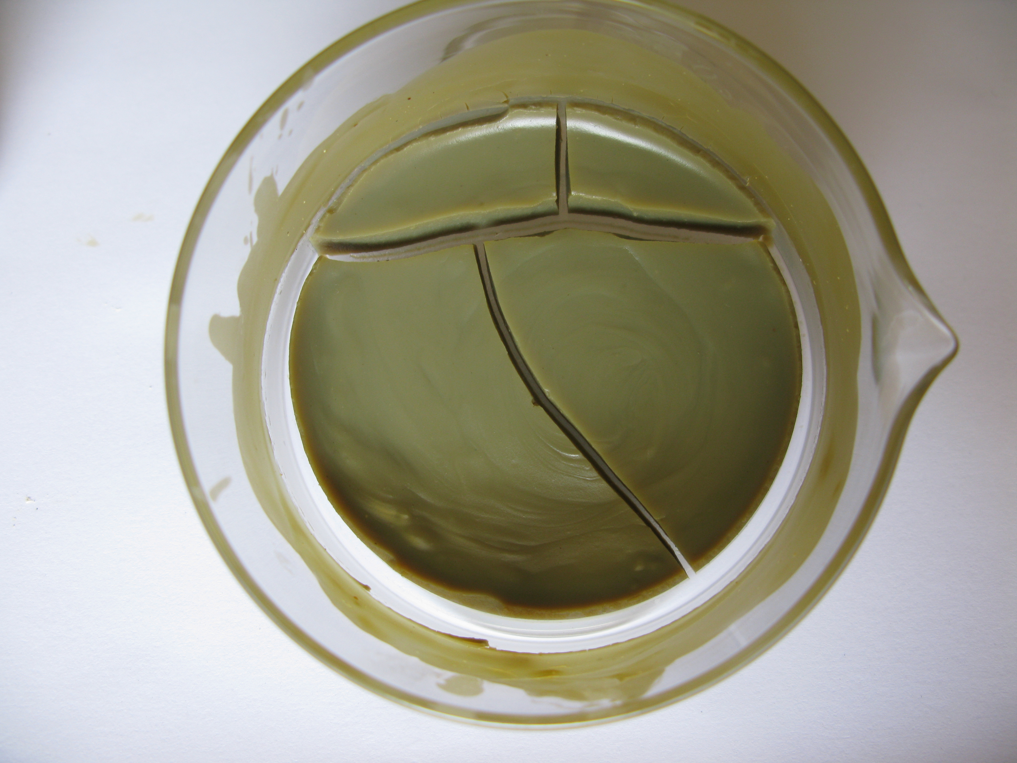 Stearoptene residue obtained by lemon essential oil refrigeration (-20 °C for a month)